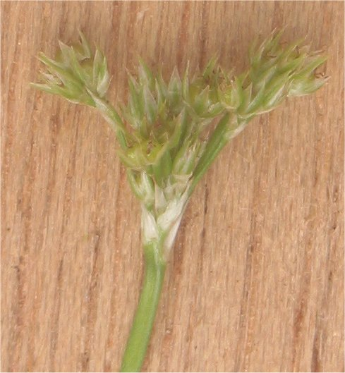 Juncus effusus inflorescnes